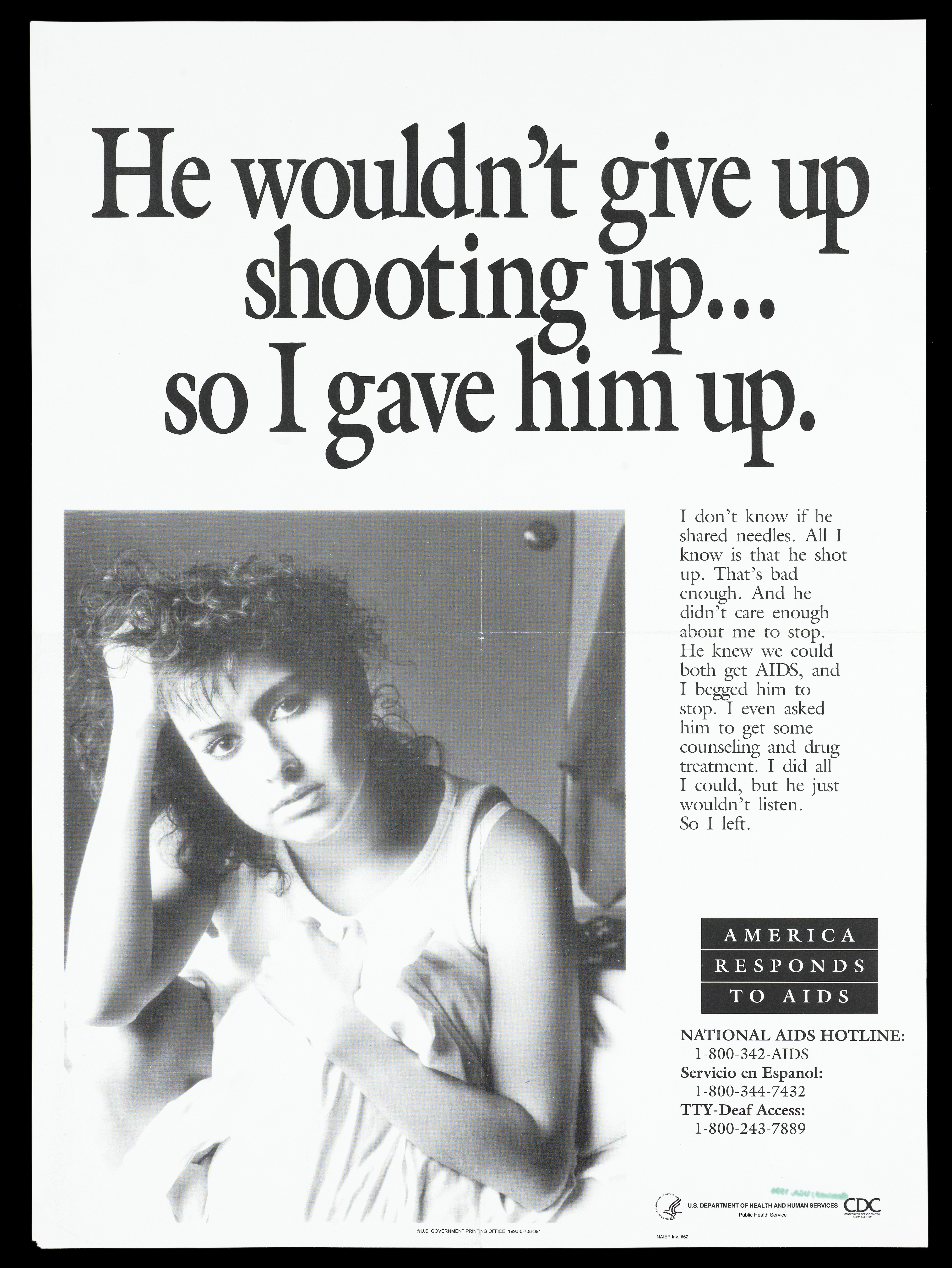 A woman with her hand in her hair and the other pulling up a sheet around her with a message about how she gave up a partner who took drugs for fear of contracting AIDS; a poster from the America responds to Aids advertising campaign. Black and white lithograph, 1993. Iconographic Collections Keywords: AIDS; United States. Dept. of Health and Human Services.; AIDS Posters; Market; AIDS poster